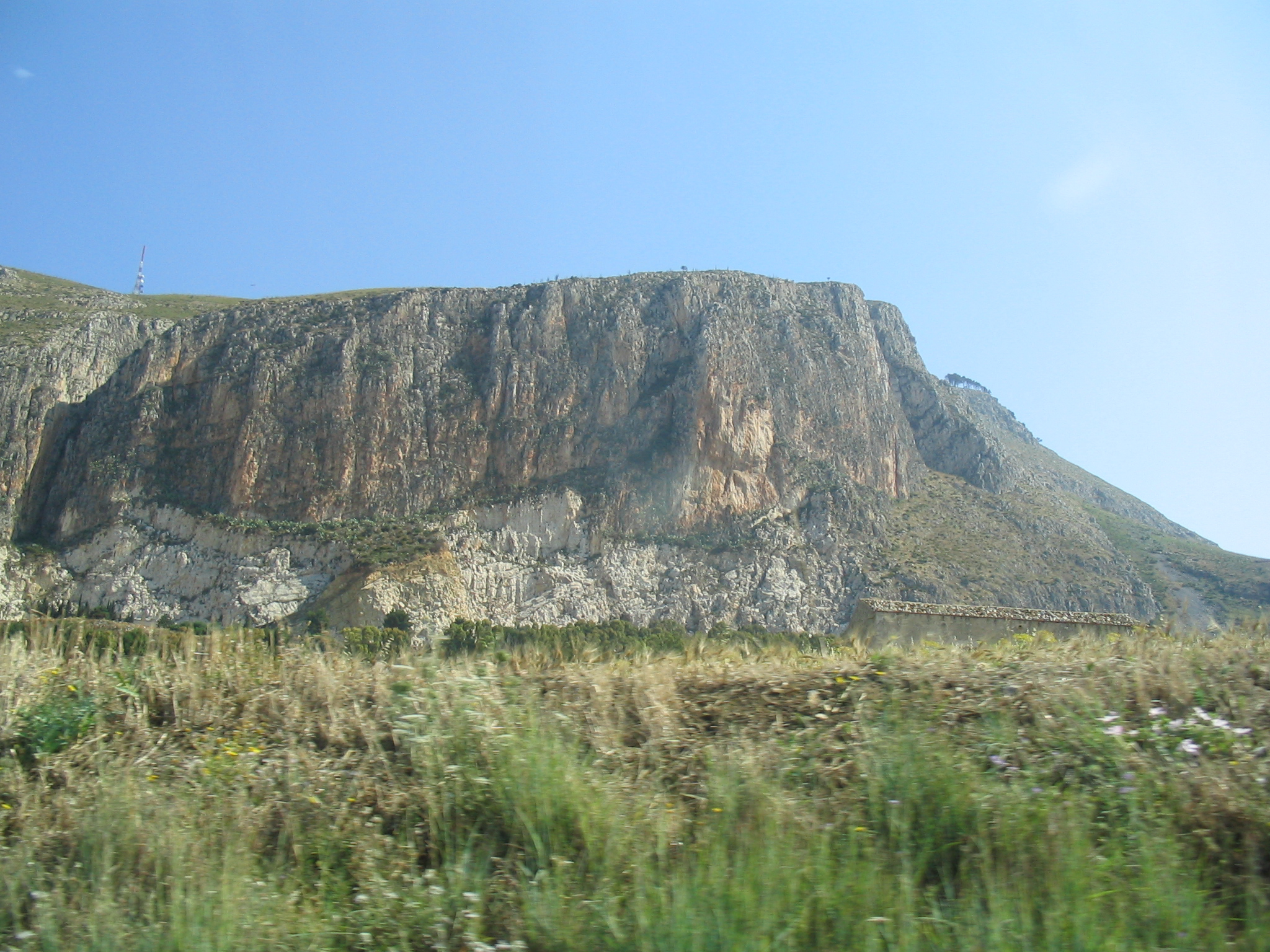 Hillside of Erice, Sicily, Italy